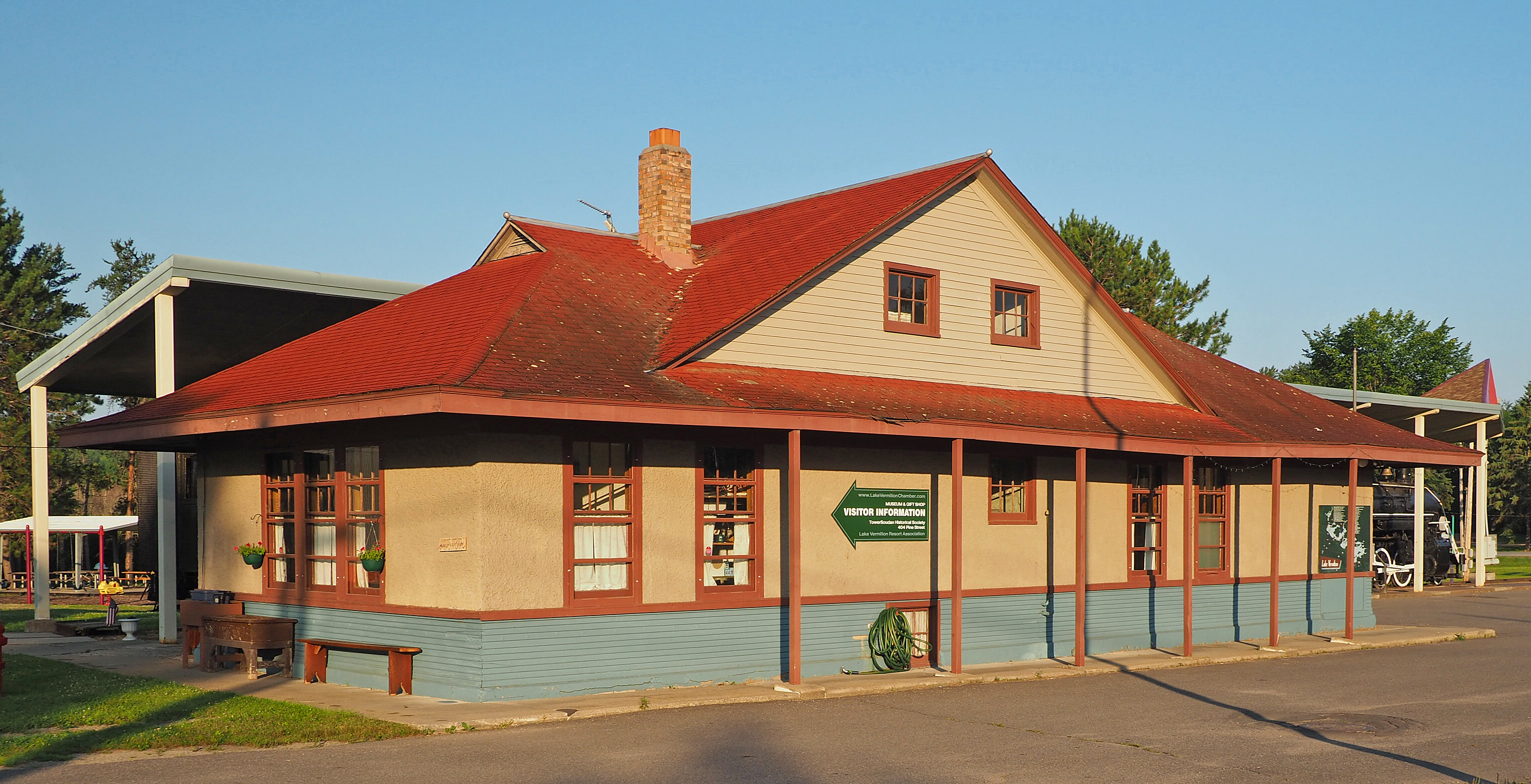 Tower Train Museum (formerly the Duluth and Iron Range Railroad Company Passenger Station), 404 Pine St, Tower, Minnesota, USA. Viewed from the northeast.